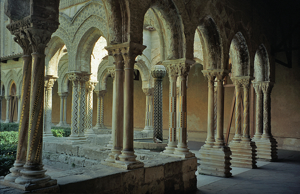 Sicily, The Cathedral Monreale